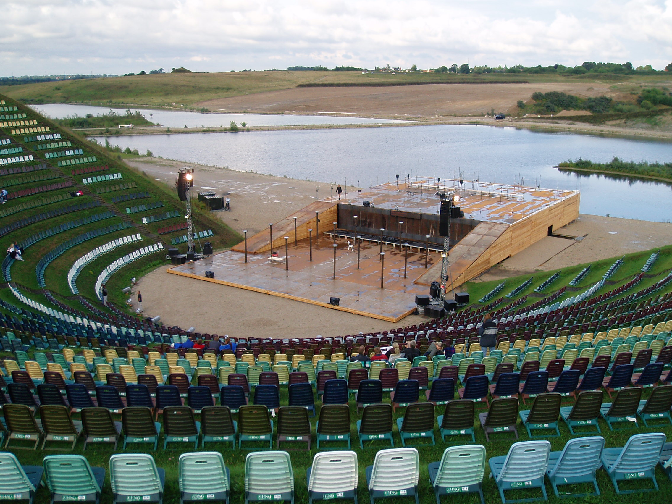 The amphitheatre Teater Hedeland. The theater is part of the former gravel pit Hedeland, which now functions as an recreational area.